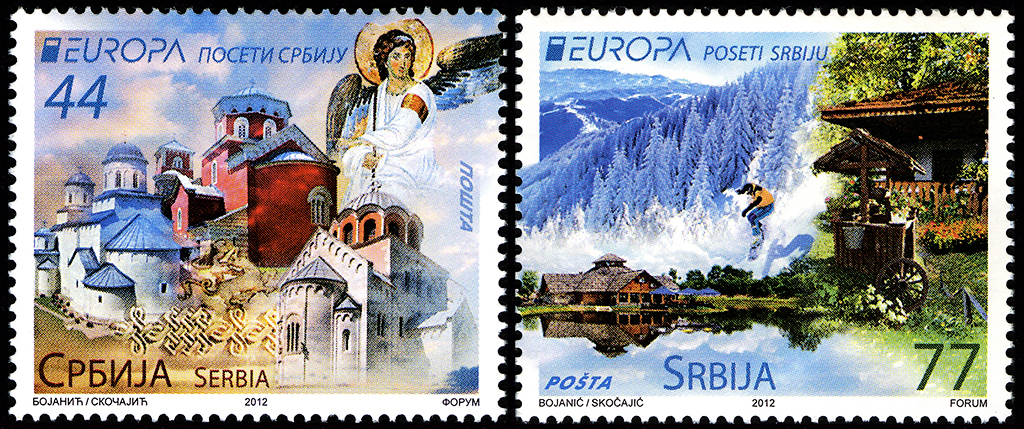 Postage stamps of Serbia, 2012. Visit Serbia. EUROPA Issue